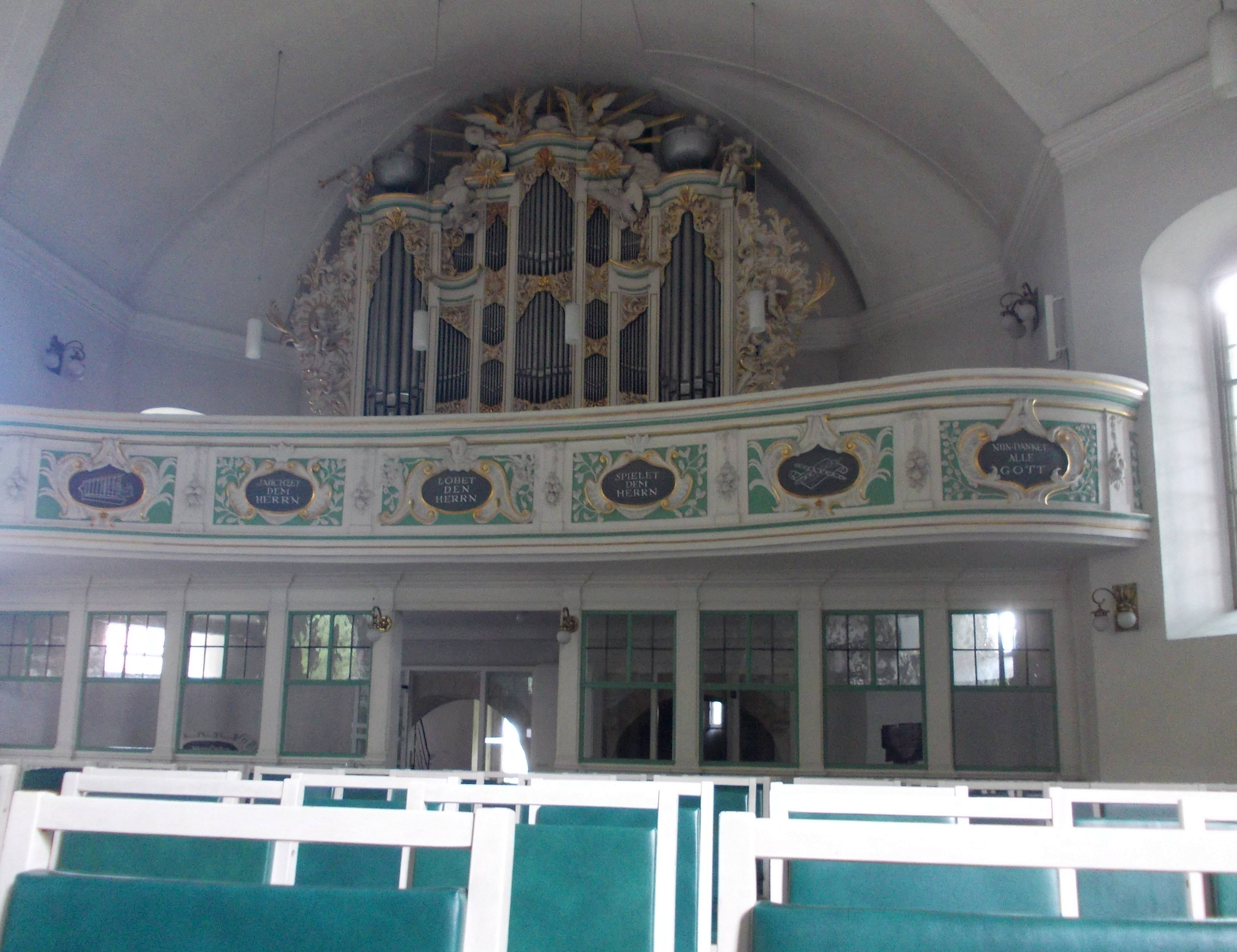 St. Bartholomew's Church in Giebichenstein (Halle/Saale, Saxony-Anhalt)